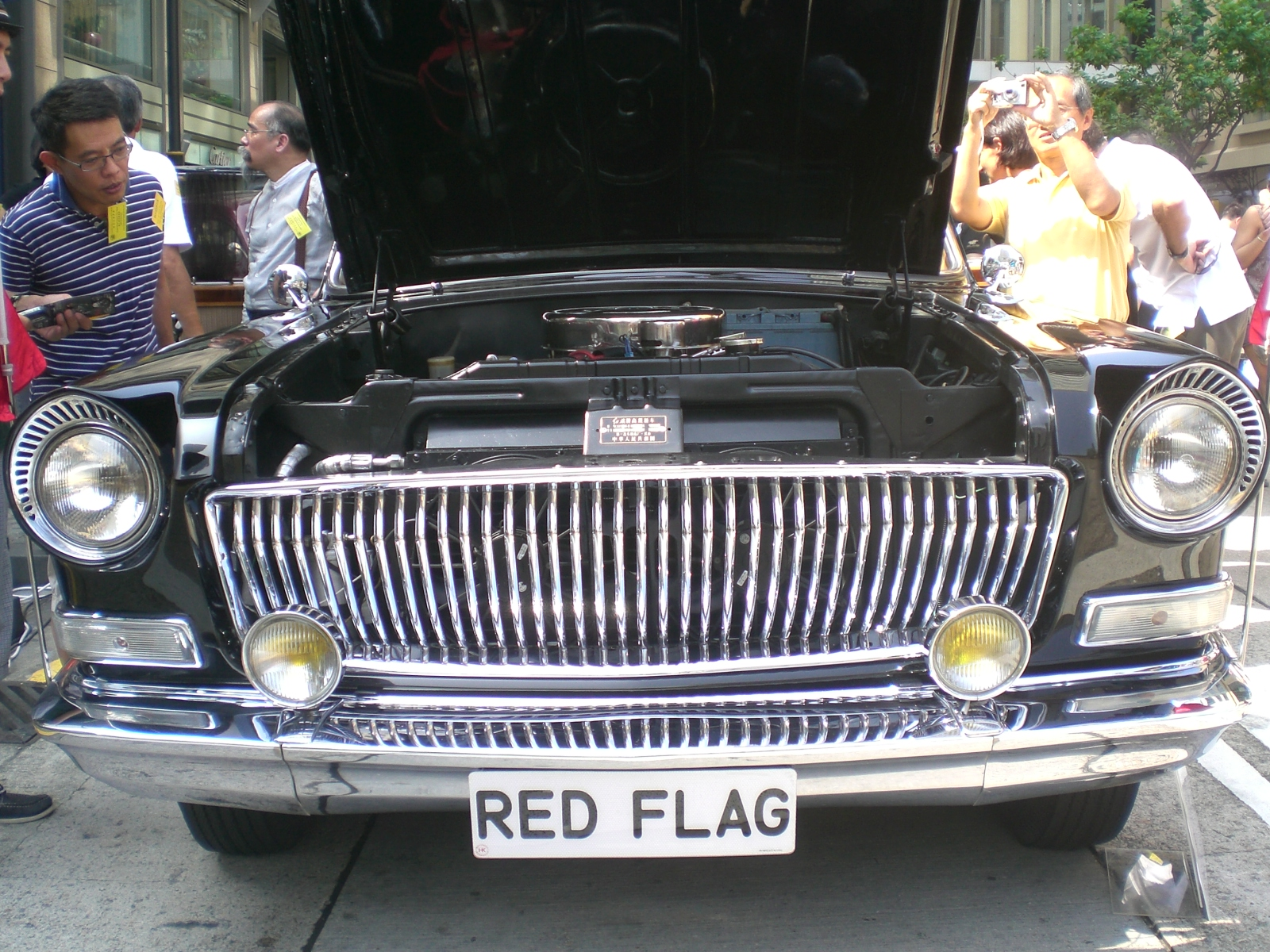 HK Chater Road Show 2008, Classic Car Club of Hong Kong 2008年, 老爺車路演